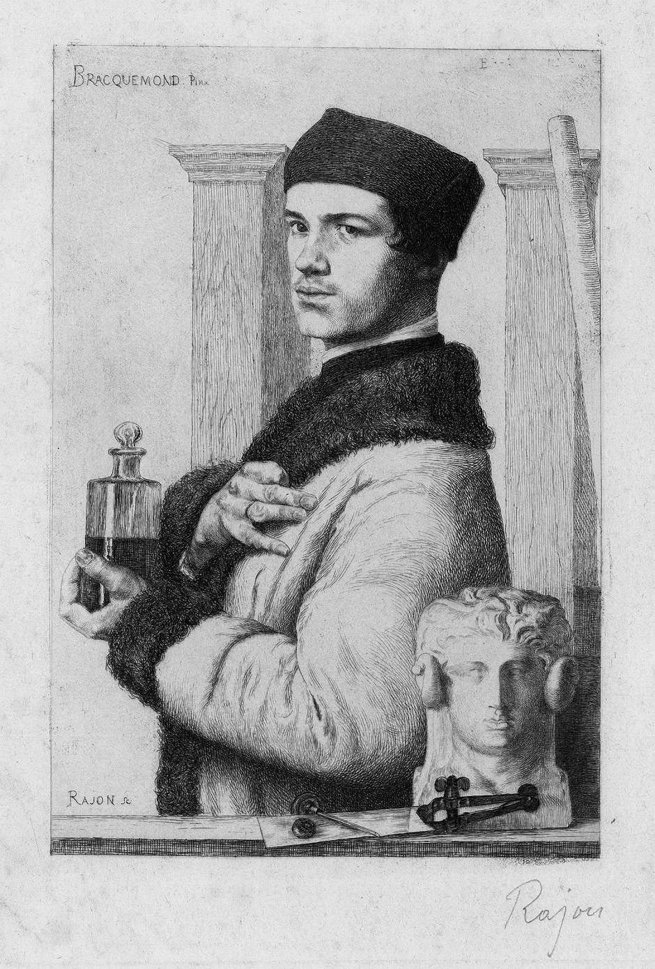 Portrait of Félix Bracquemond after a self-portrait by Bracquemond (now in the Fogg Art Museum, Cambridge, Mass.)